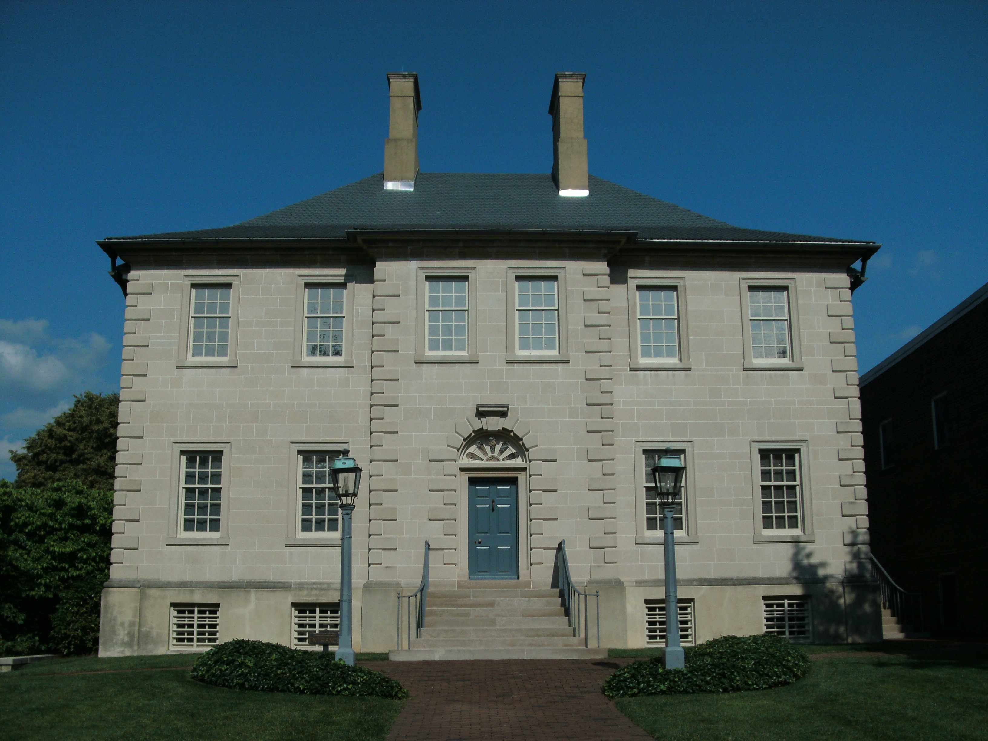 Image taken by me for Wikipedia